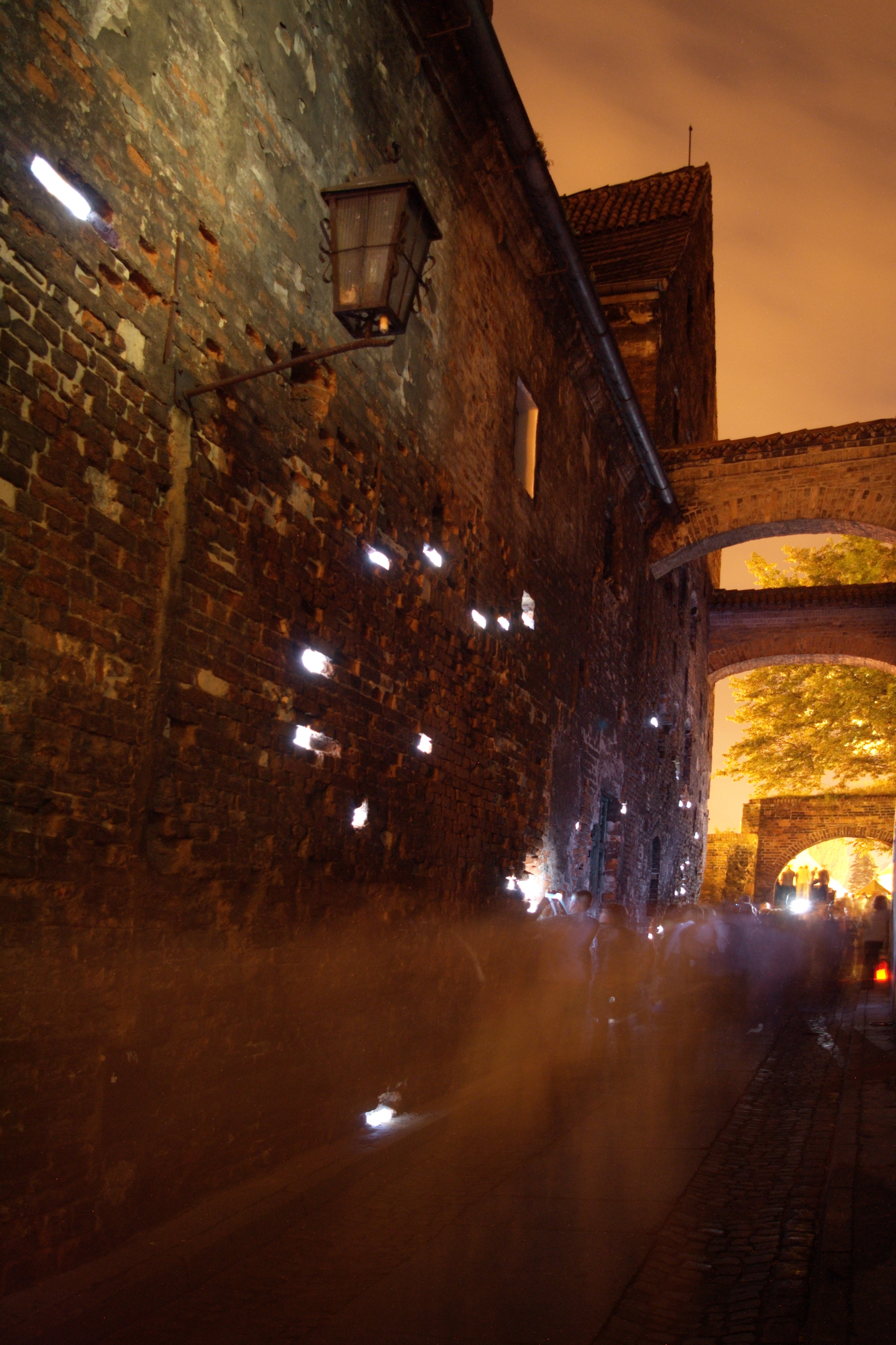 Toruń, Ciasna Street at Skyway'09 Light Festival